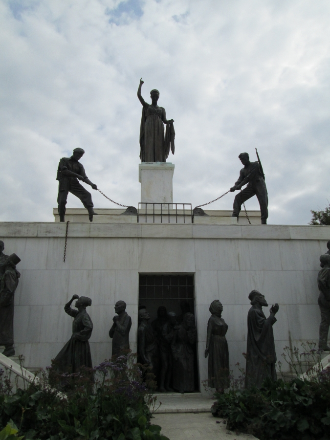 Statue of Liberty Eleftheria Nicosia Republic of Cyprus